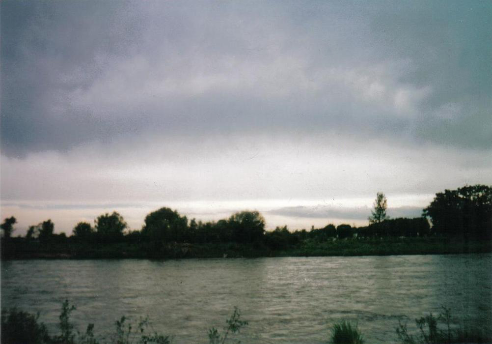 Photograph of the argentine Quinto River in Villa Mercedes, San Luis.